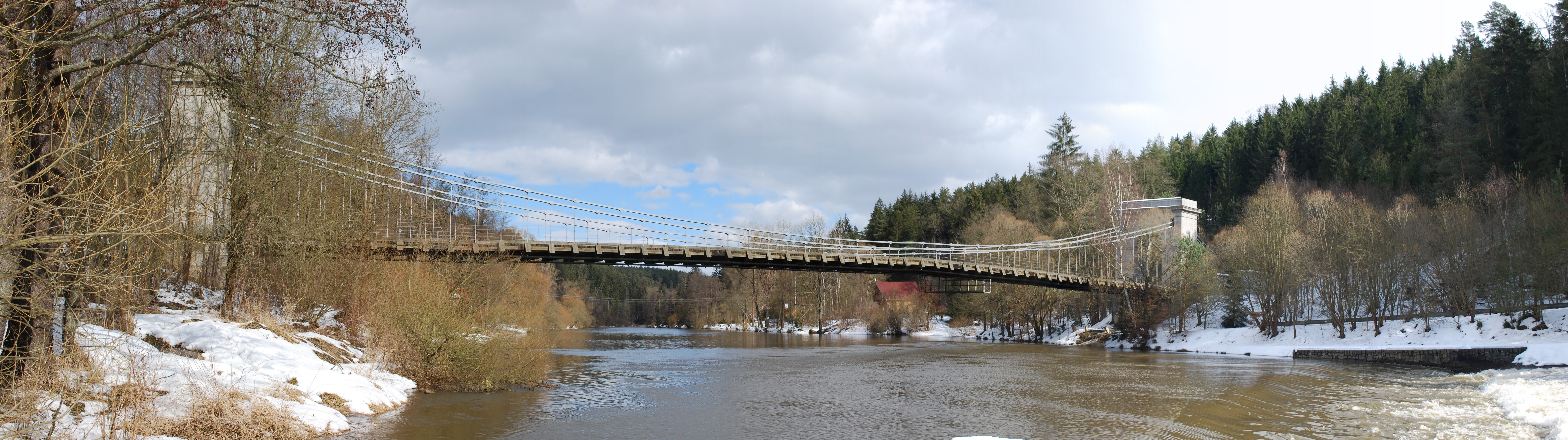 Stádlecký bridge over Lužnice River near Stádlec village in Tábor District, Czech Republic. This photograph was taken within the scope of the 'Czech Municipalities Photographs' grant. - Google Maps - Google Earth